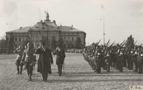 Pehr Evind Svinhufvud, the President of Finland, in Kuopio, Finland. Kuopio City Hall on the background.